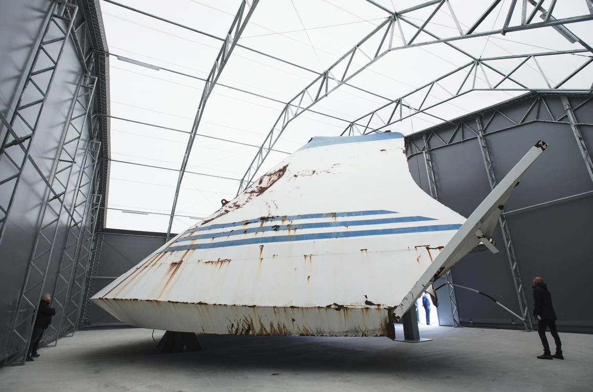 Estonias bogvisir, placerat på Muskö Örlogsbas.